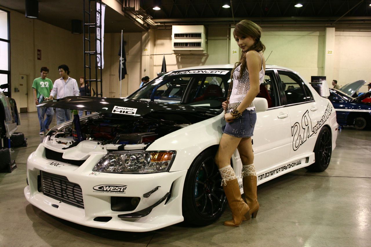 American born Japanese pop singer model and television personality Leah Dizon, at auto show in Oxnard, California